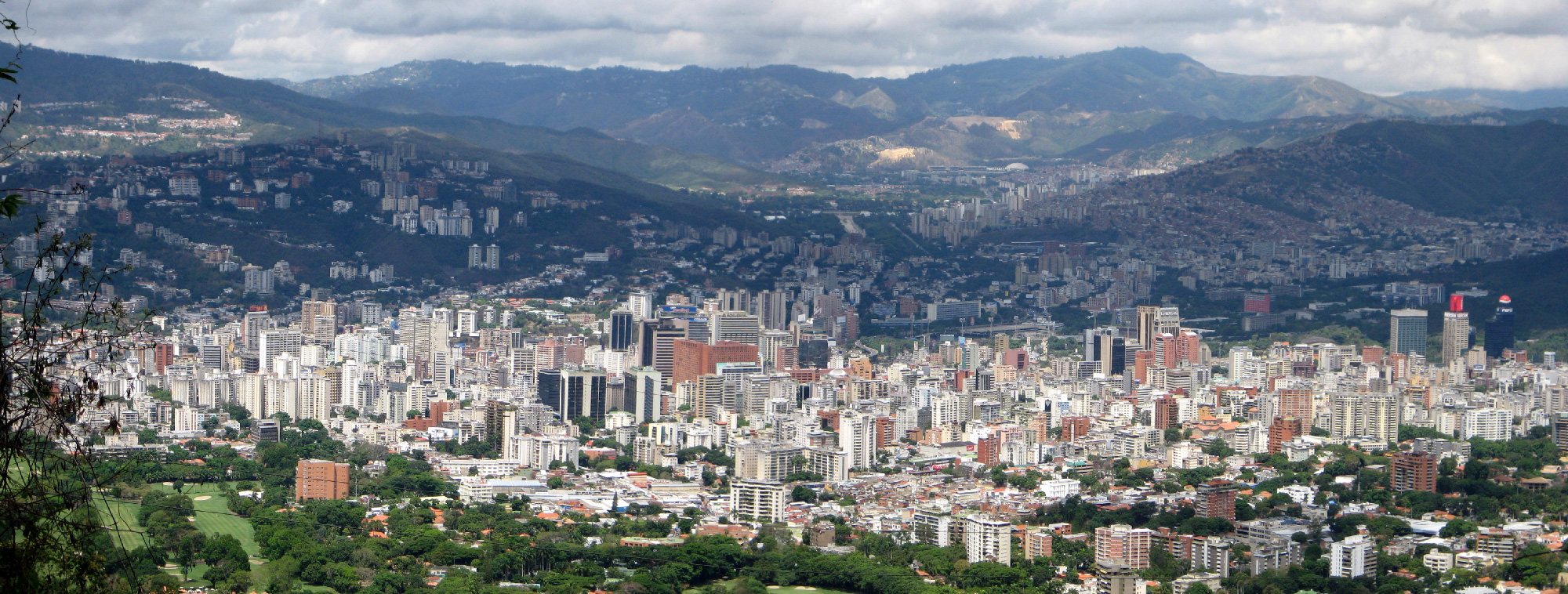 View of Caracas and the Capital District, Venezuela — taken from Mount Avila. by Gloria Rodríguez, June 2007